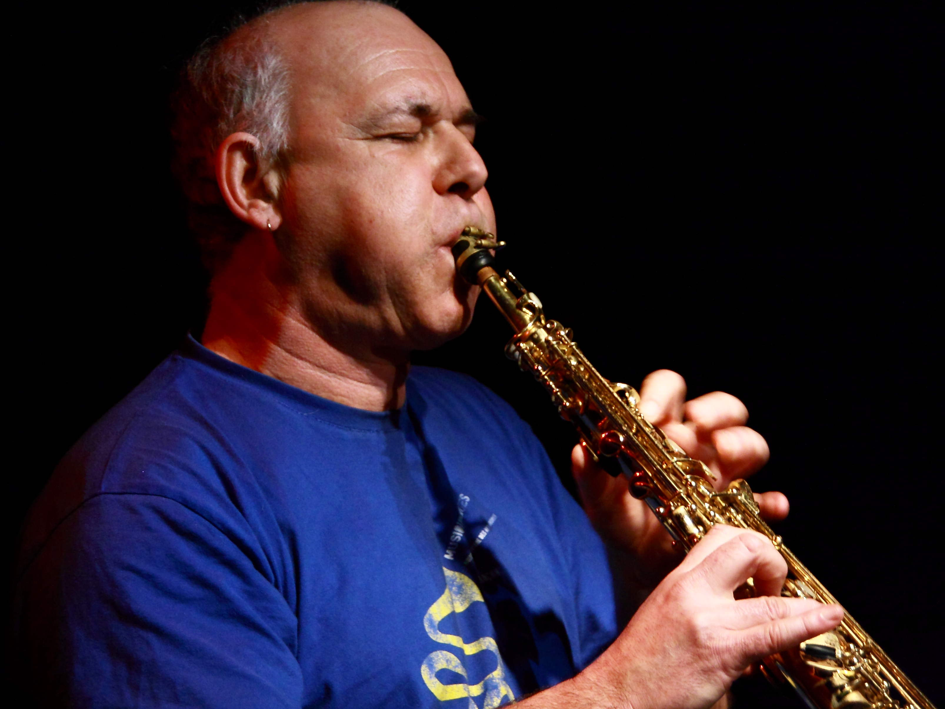 French saxophone-player Michel Doneda in concert with Roger Turner and John Russell at Club W71, Weikersheim.